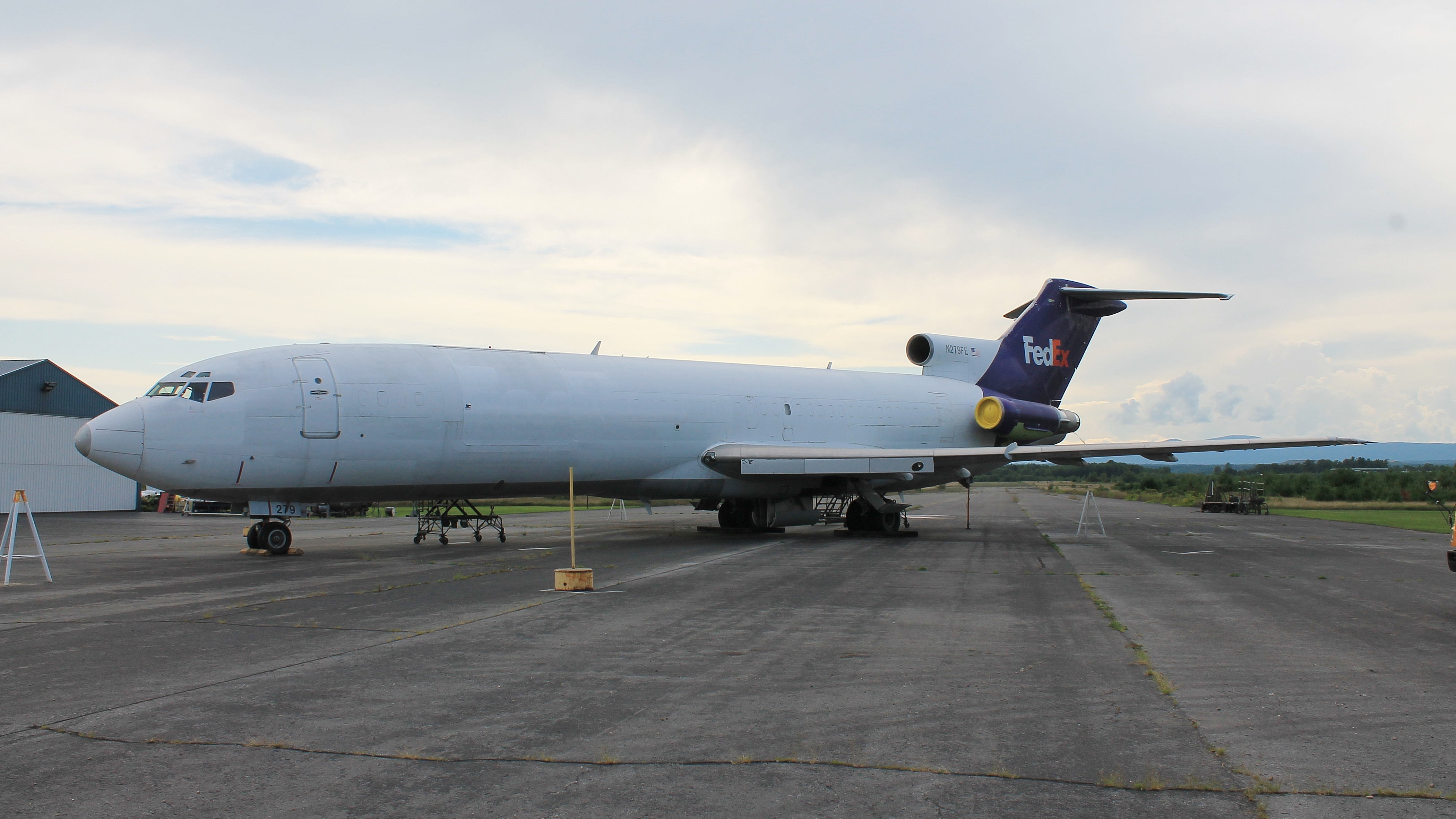 A ex-FedEx Boeing 727, N279FE, sitting on the former runway 27 at the closed Clinton County Airport in Plattsburgh.